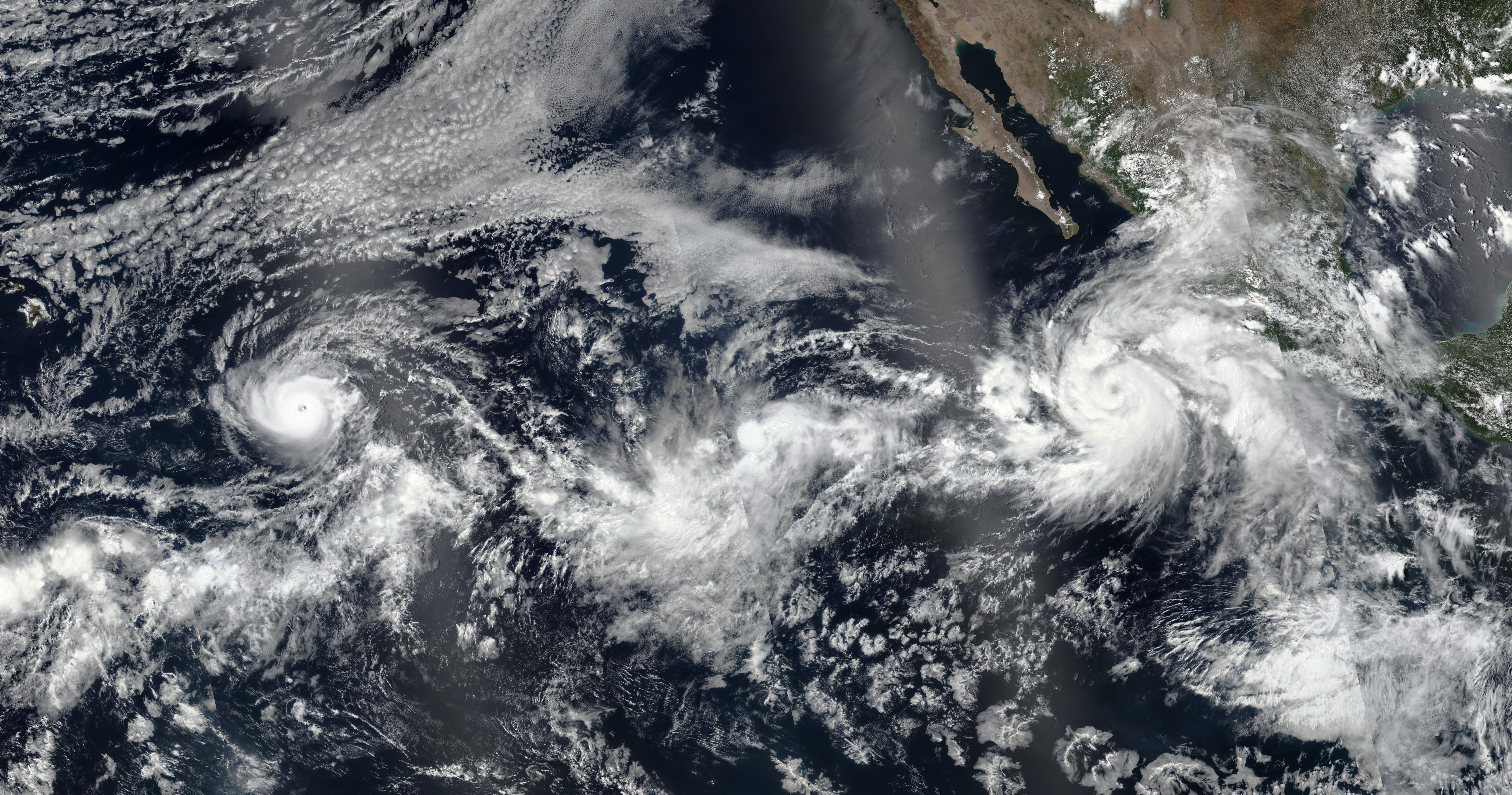 Hurricane Hector, Tropical Depression Thirteen-E, Hurricane John and Tropical Storm Ileana on August 6, 2018